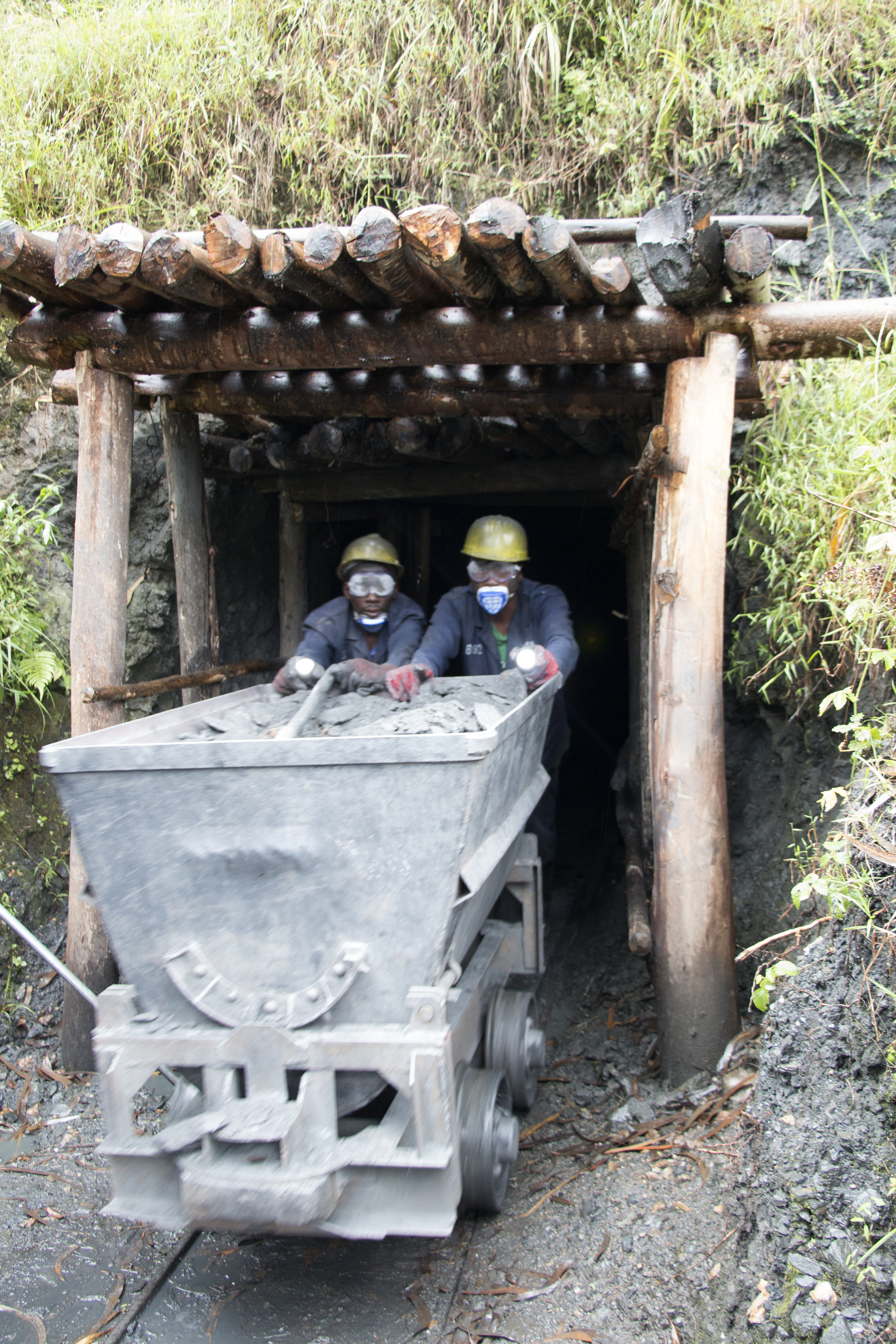 A full trolly coming from one of the galleries